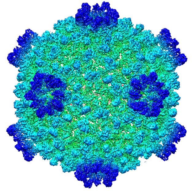 Structure of a transcribing cypovirus. EMDB 5376